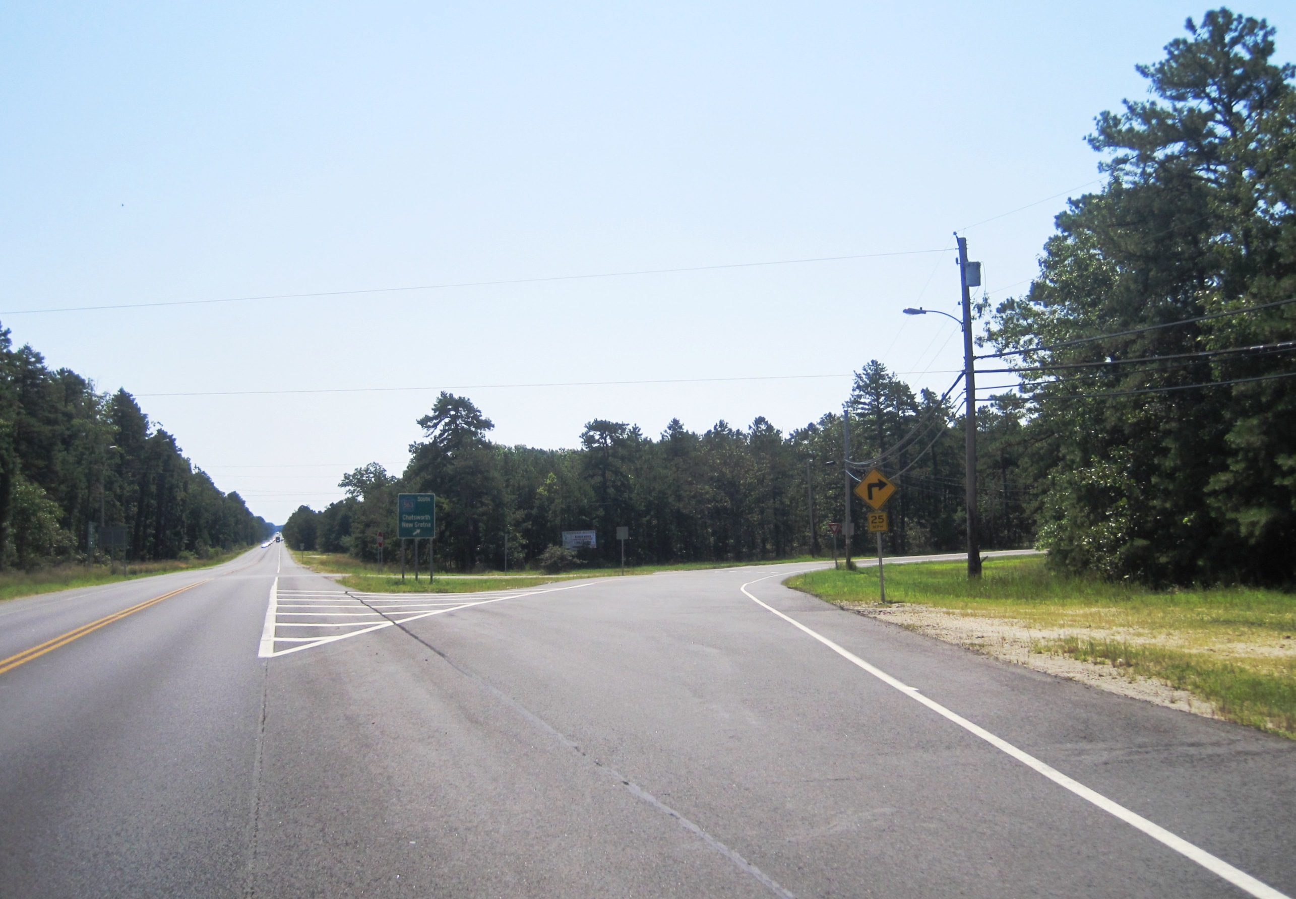 Photo showing the northern terminus of County Route 563 at New Jersey Route 72 (photo vantage point looking southeast) in Woodland Township, New Jersey, within the New Jersey Pine Barrens.